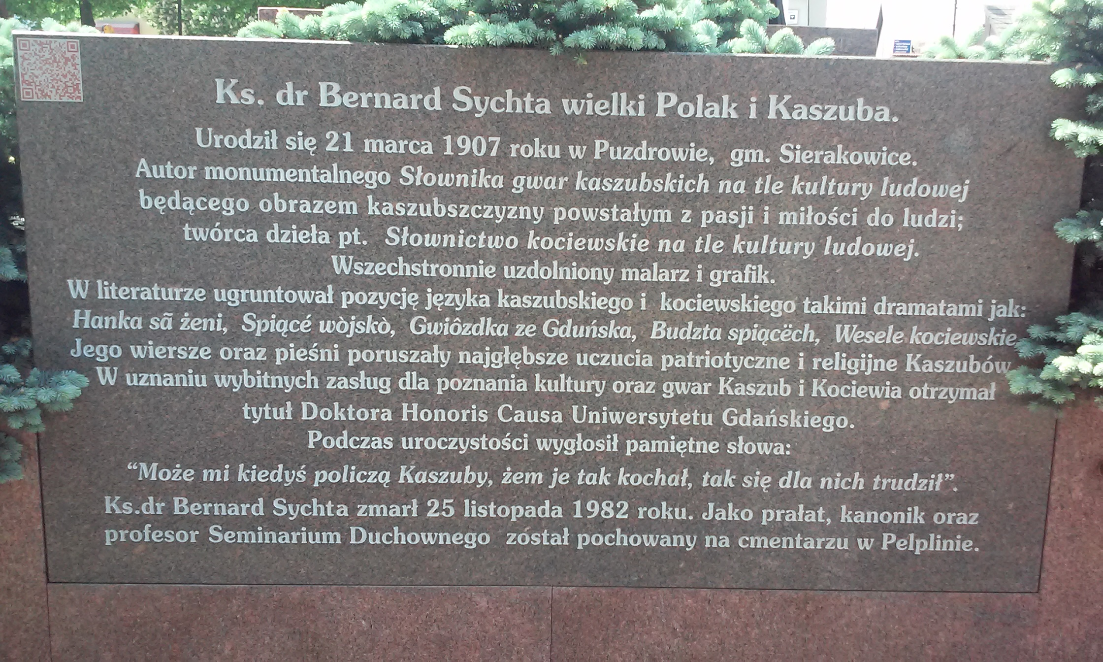 The commemorative plaque on the back site of the monument of rev. Bernard Sychta in Sierakowice (Pomerania).